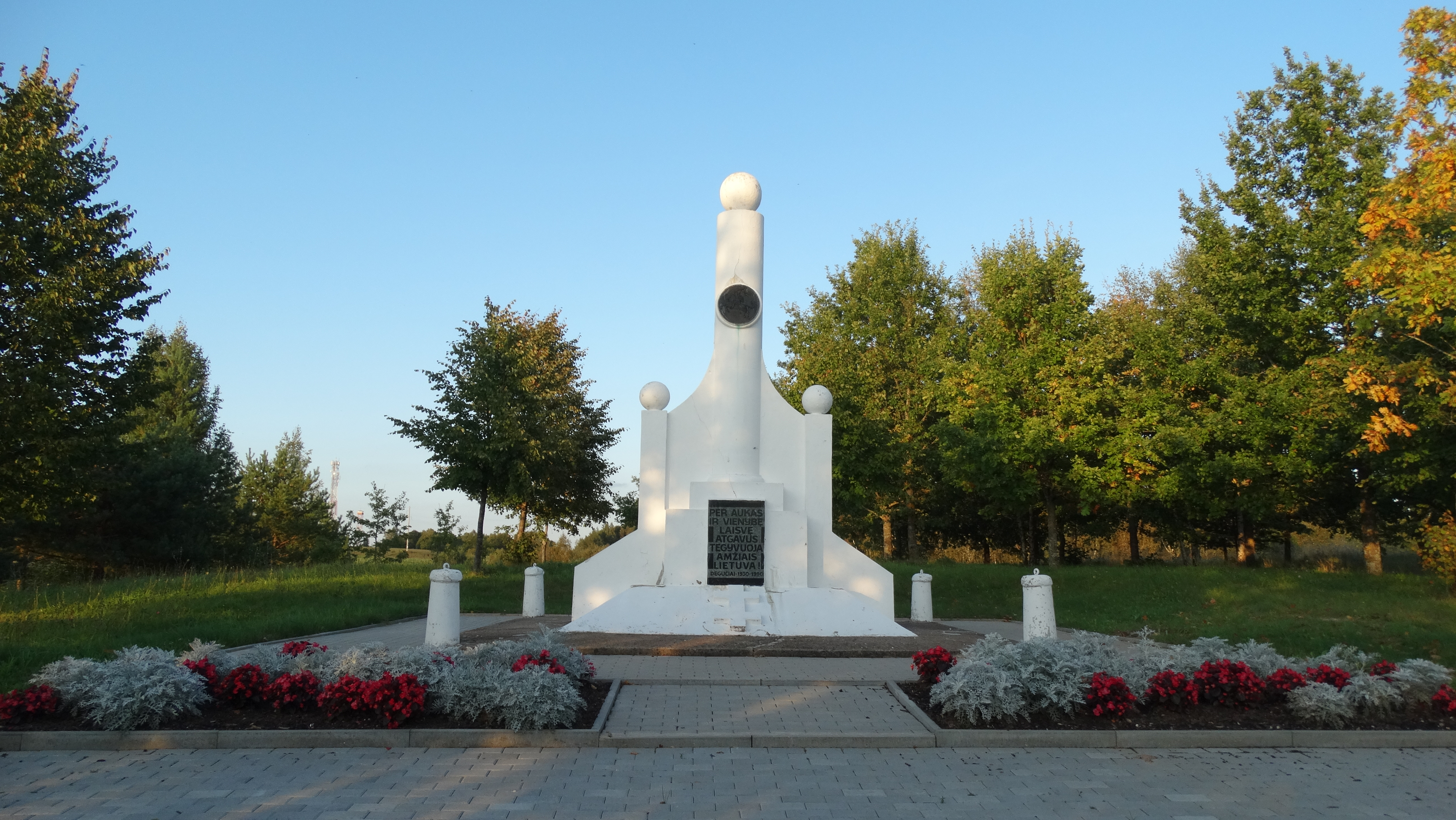 Independance monument, Degučiai, Zarasai district, Lithuania